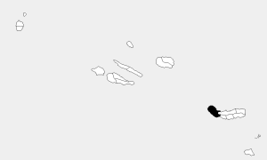 Map of the Azores highlighting Ponta Delgada.